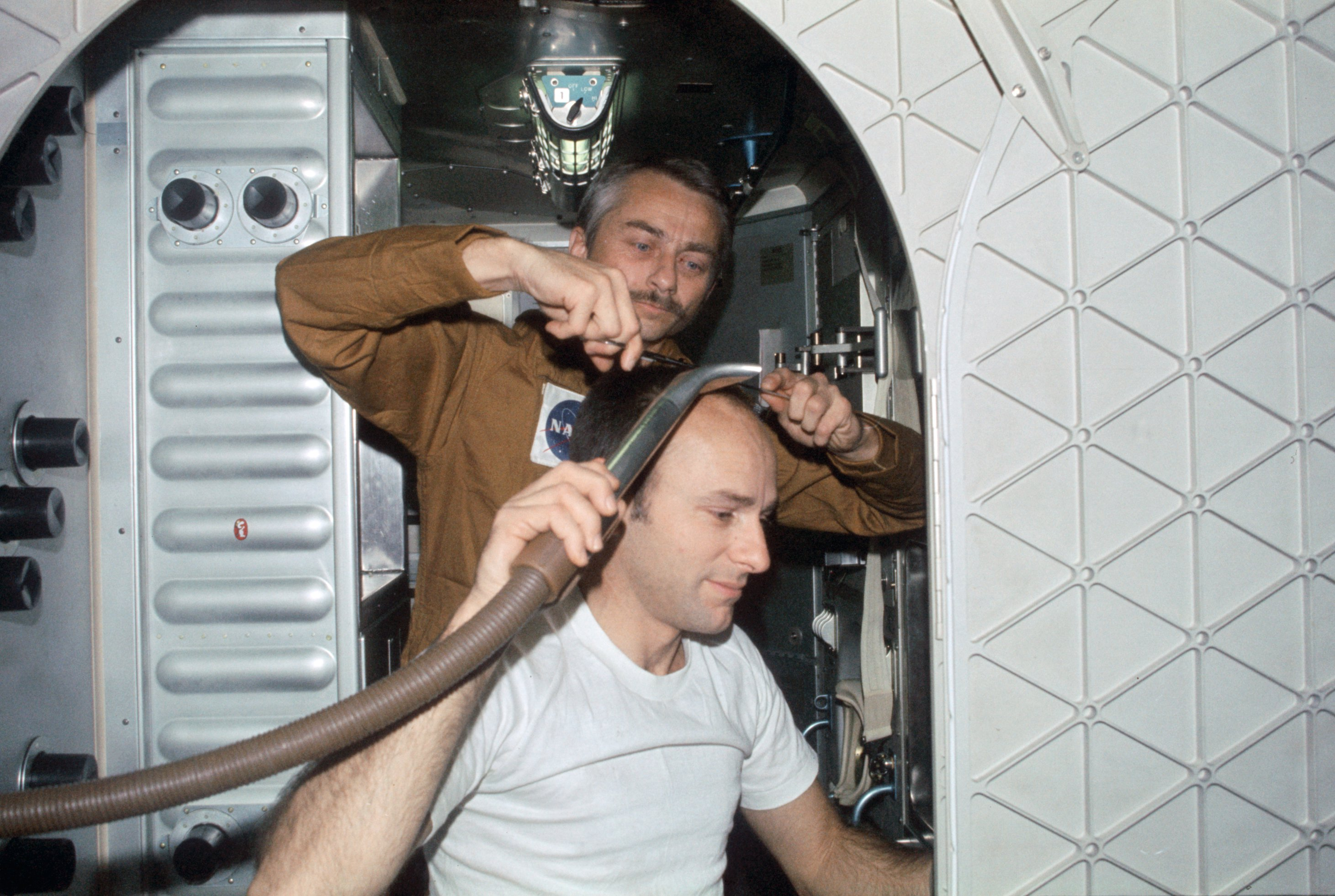 Scientist-Astronaut Owen K. Garriott, Skylab 3 science pilot, trims the hair of Astronaut Alan L. Bean, commander, in this on-board photograph from the Skylab Orbital Workshop (OWS). Bean holds a vacuum hose to gather in loose hair.